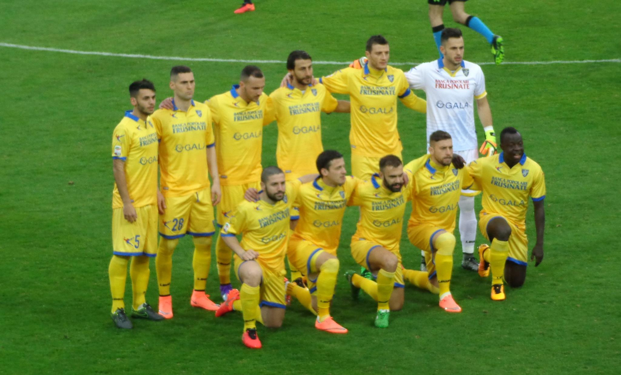 Frosinone, Matusa Stadium, February 7, 2016. Frosinone — Juventus 0-2, Italy Championship 2015–16 Serie A. Frosinone line-up.